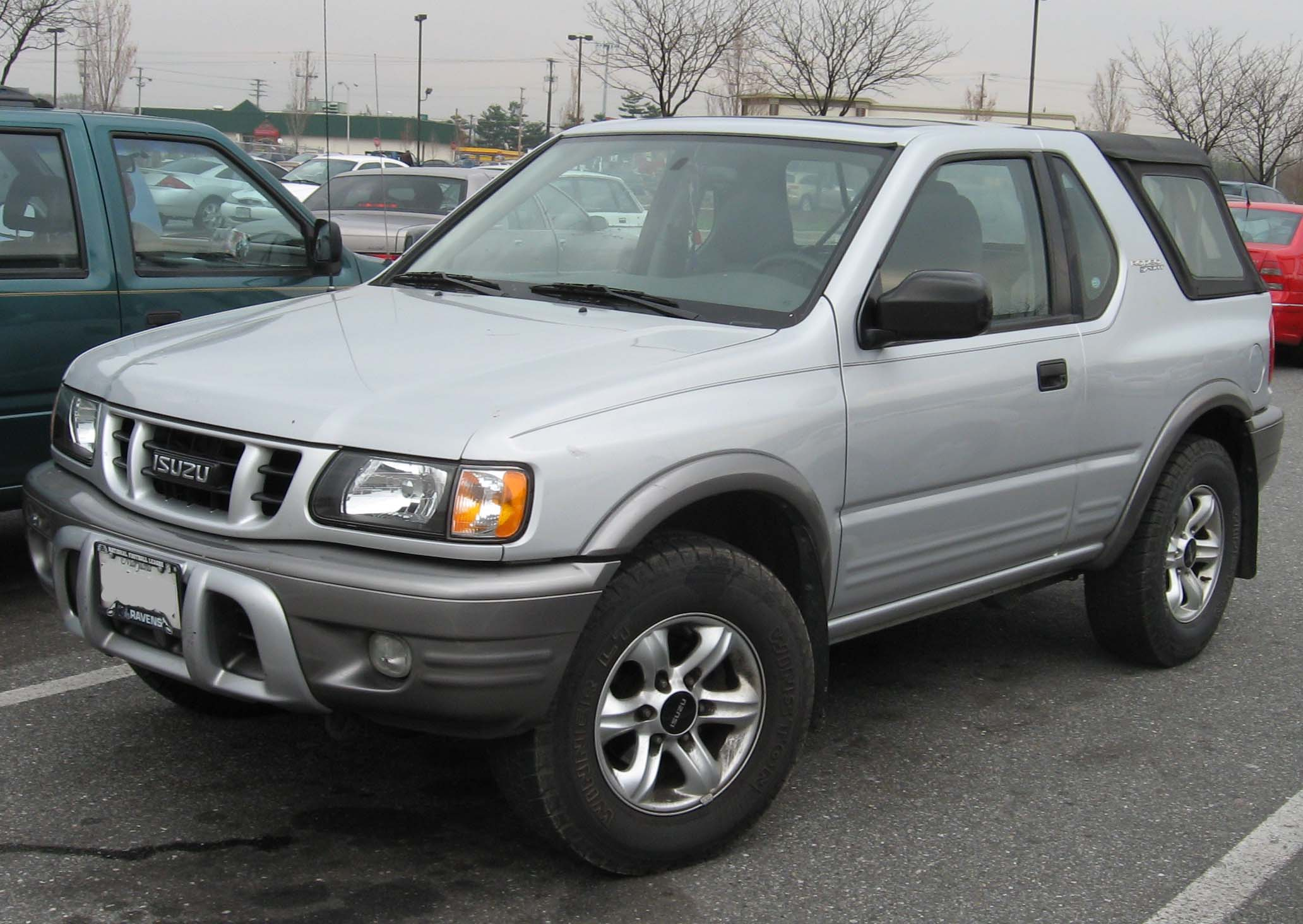 2001-2003 Isuzu Rodeo Sport photographed in USA.